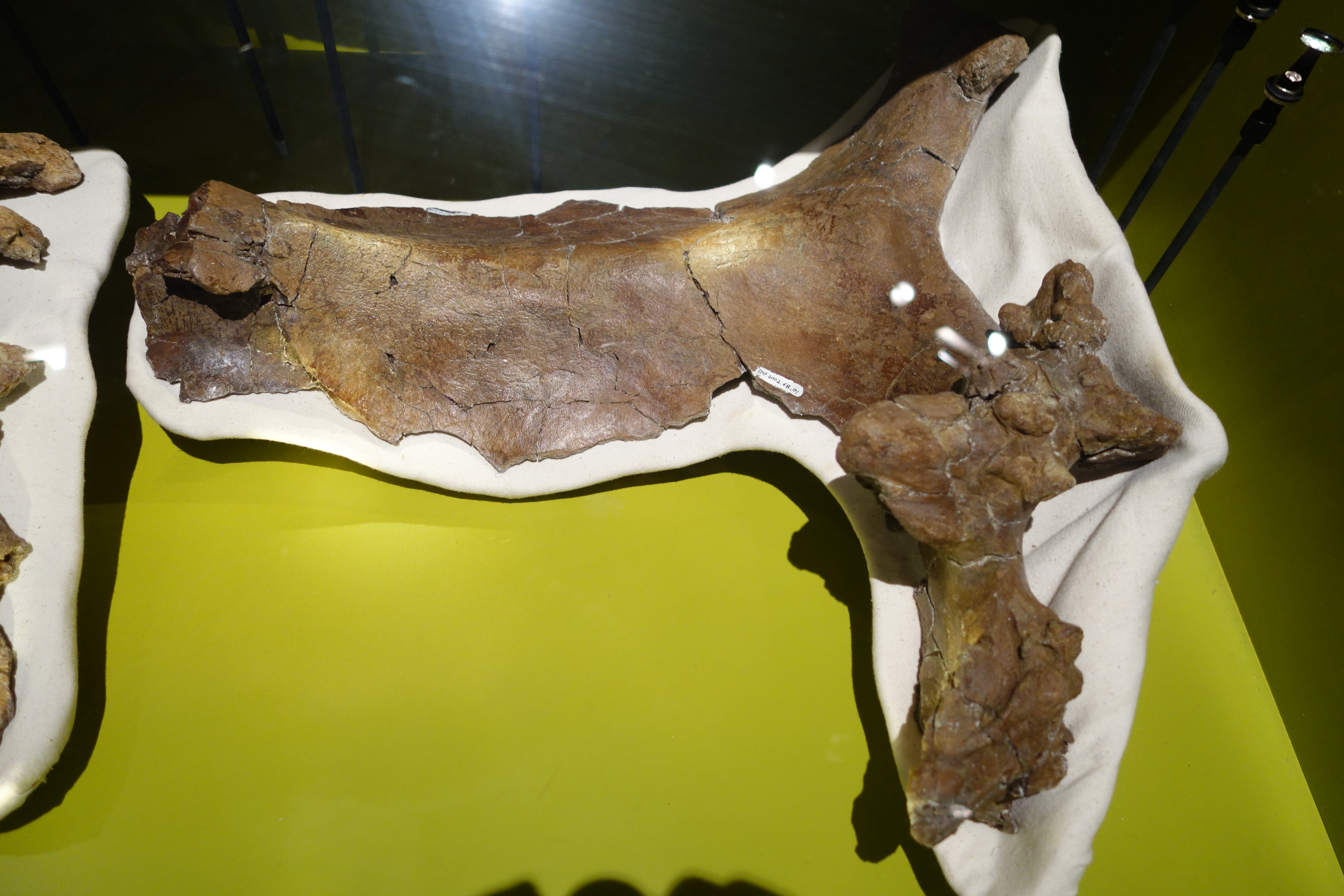 Rear part of the skull of Centrosaurus brinkmani, from the Dinosaur Provincial Park, Alberta. On display at the Royal Tyrrell Museum, Alberta. On display at the Royal Tyrrell Museum, Alberta.